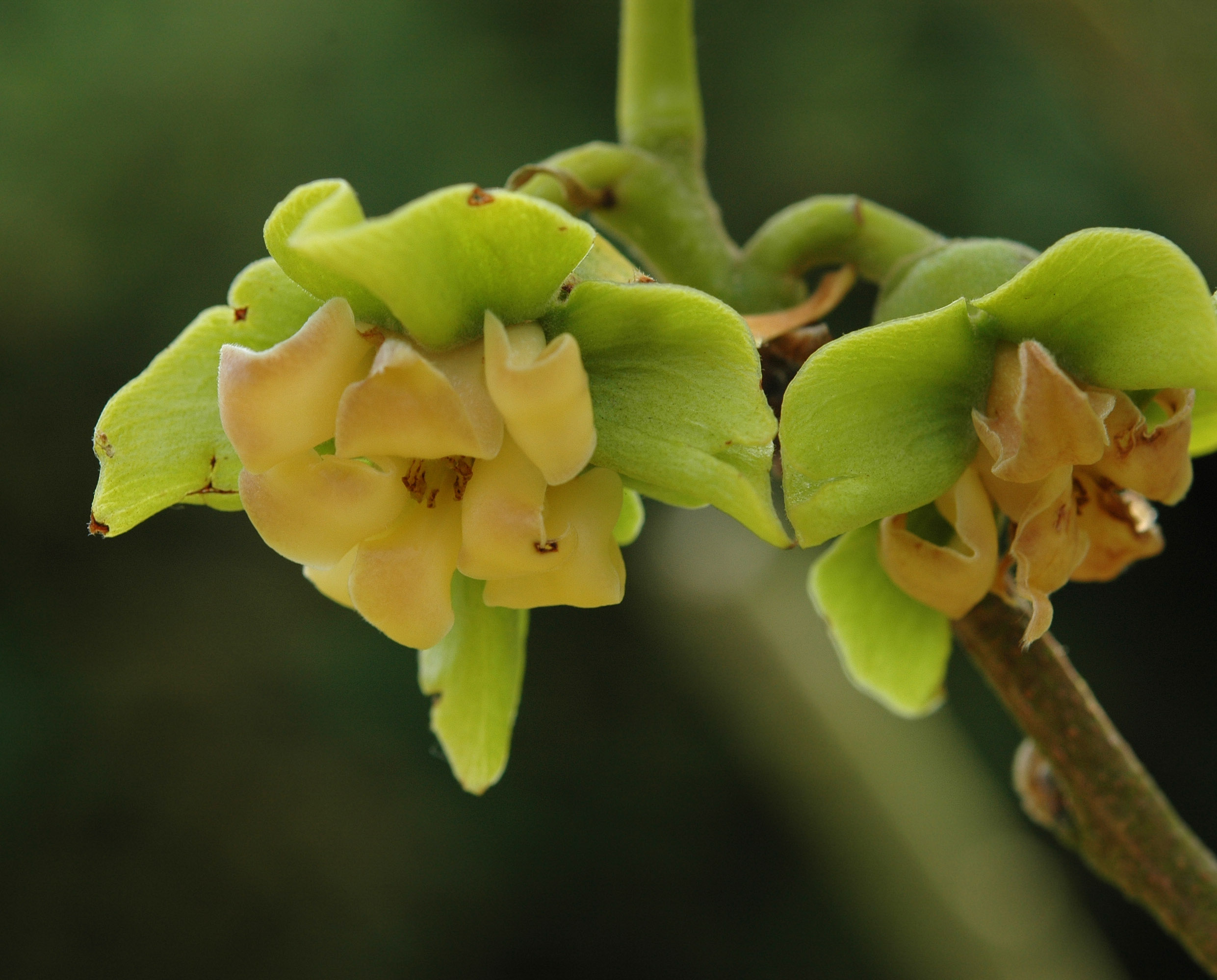 Diospyros kaki (photo taken in Belgium)